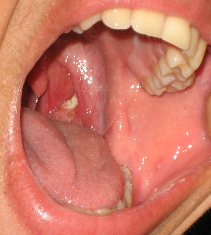 A tonsillolith back-up in my tonsilar crypt